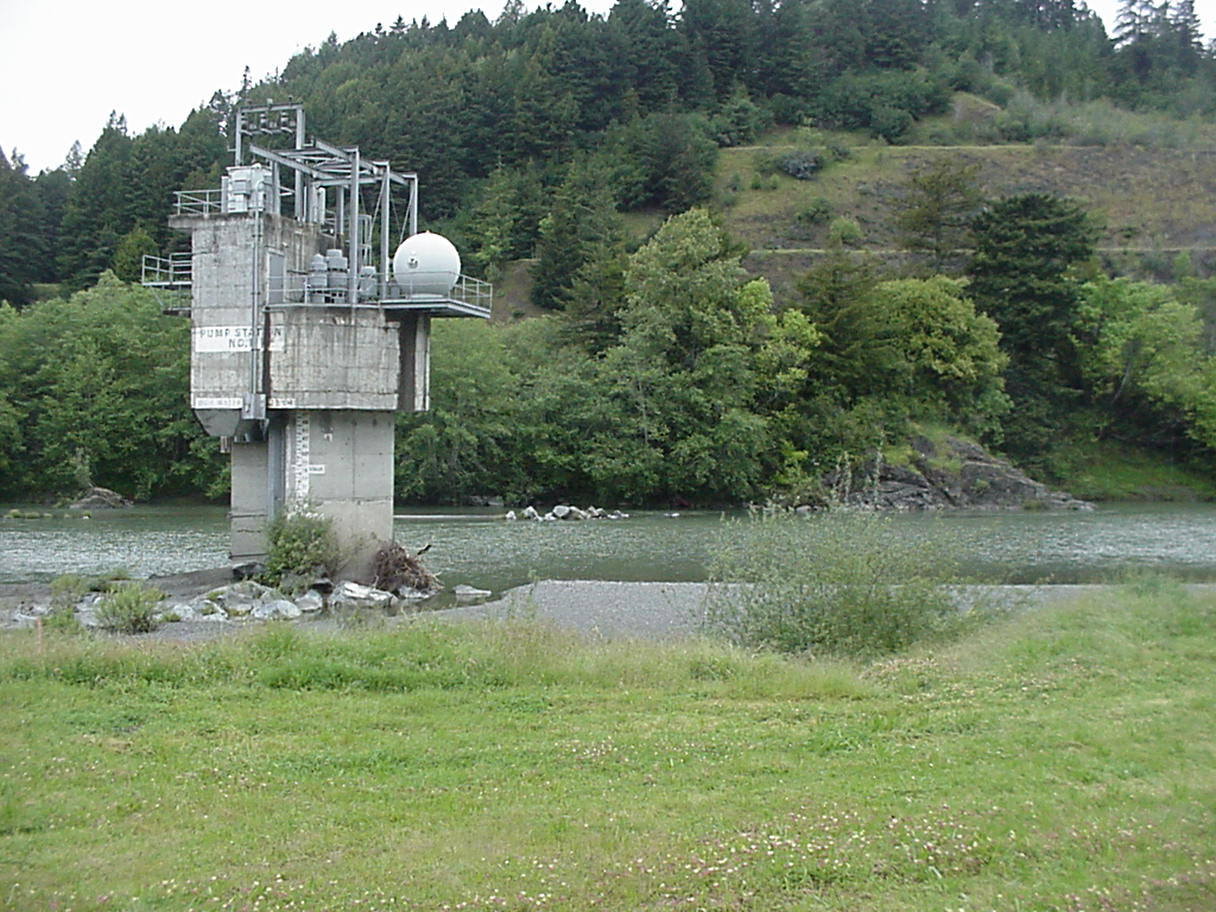 Ranney collector on the Mad River — in Humboldt County, California.